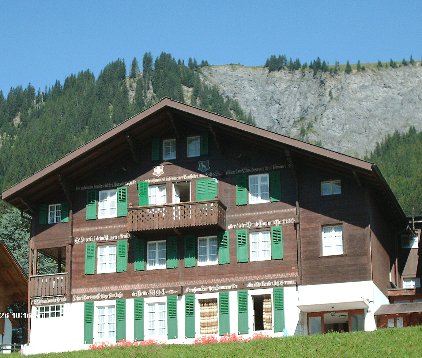 Description: Mittelhaus - 1887, eldest existing building of Hotel Hari, Adelboden Author: Photo taken in July 2003 by Irmgard. Colour, brightness and contrast by Lucas License: GFDL